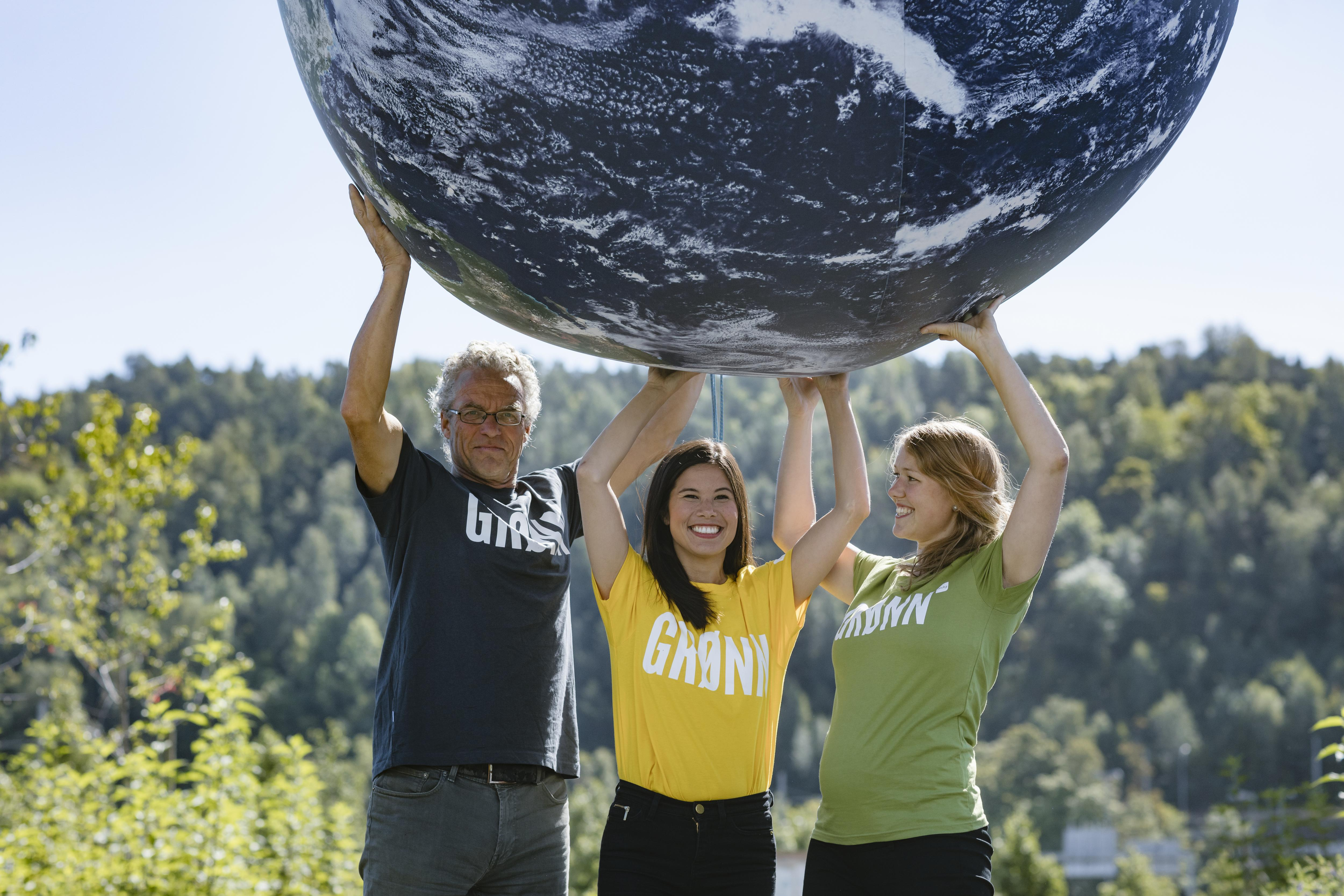 Rasmus Hansson, Lan Marie Nguyen Berg og Une Aina Bastholm Foto: Thomas Ekström